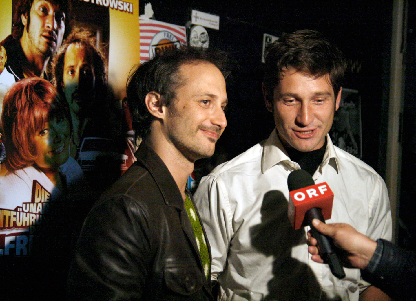 Michael Ostrowski and Andreas Kiendl at the premiere party for the movie Die unabsichtliche Entführung der Frau Elfriede Ott at the Pratersauna in Vienna.